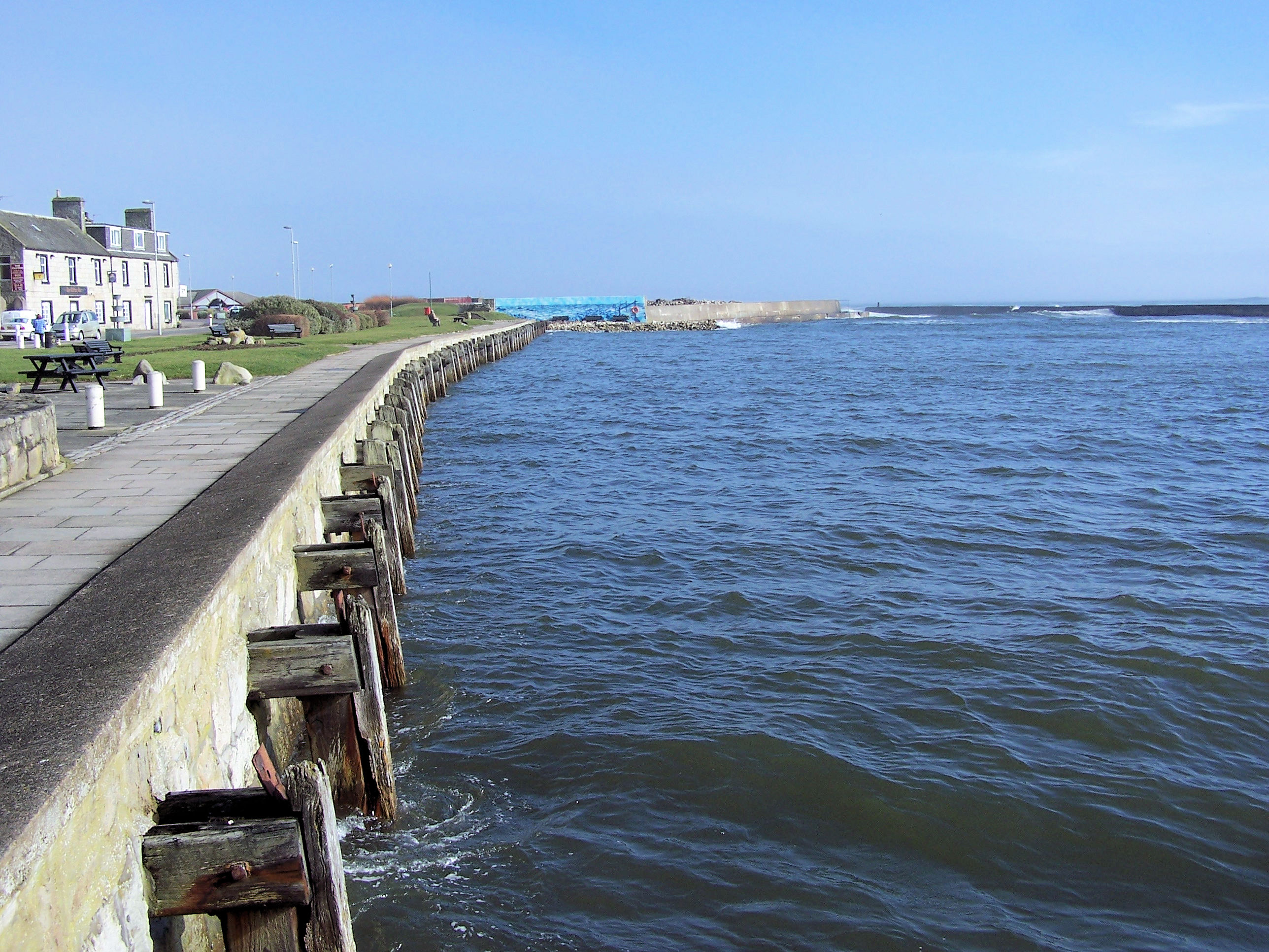 The first harbour at Lossiemouth, Moray, Scotland dates to c.1765